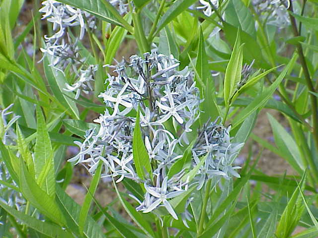 Species: Amsonia tabernaemontana Family: Apocynaceae Image No. 2